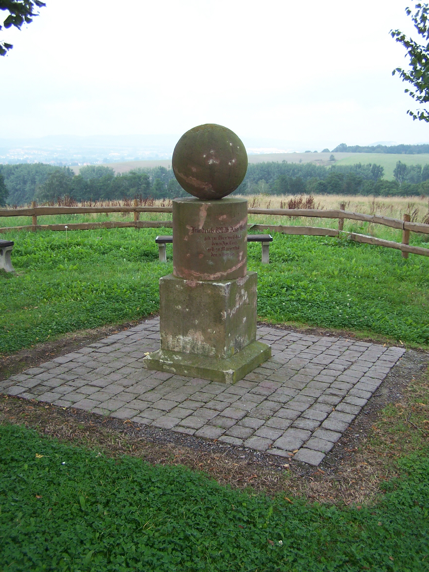 The Froebel monument in Schweina-Marienthal.